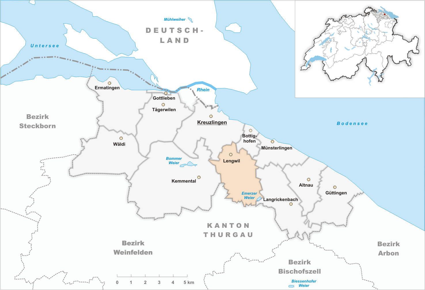 Municipality Lengwil